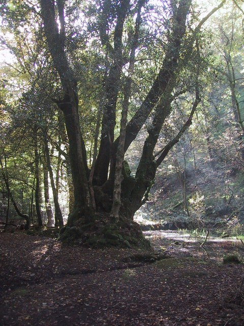 Old Woodland by the River Dart